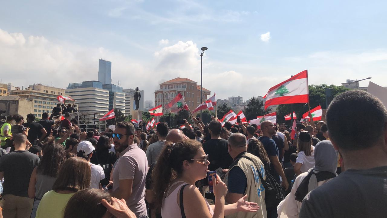 2019 Lebanese protests - Beirut